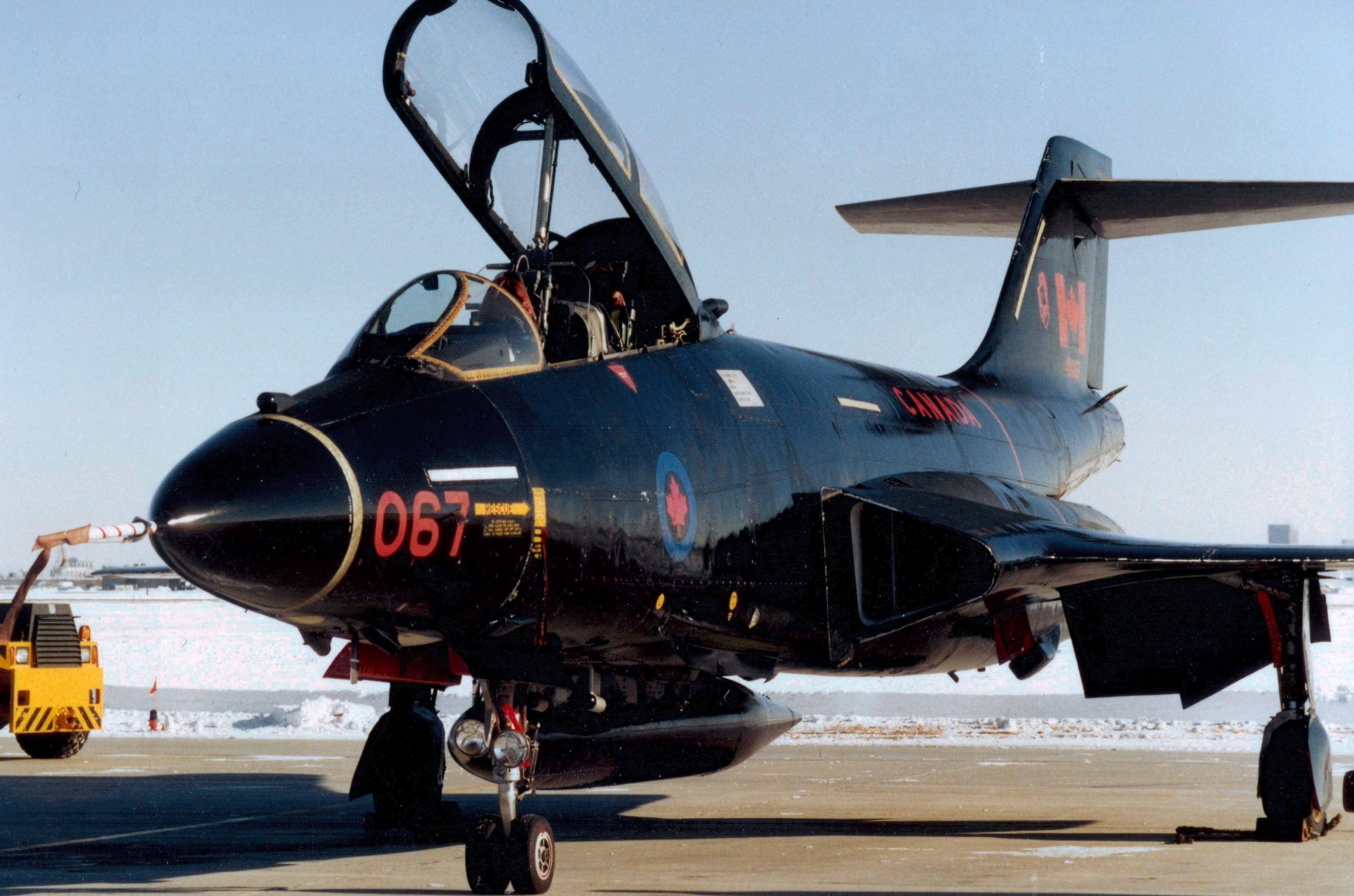 The EF-101B "Electric Voodoo" on its final deployment across Canada, 1987